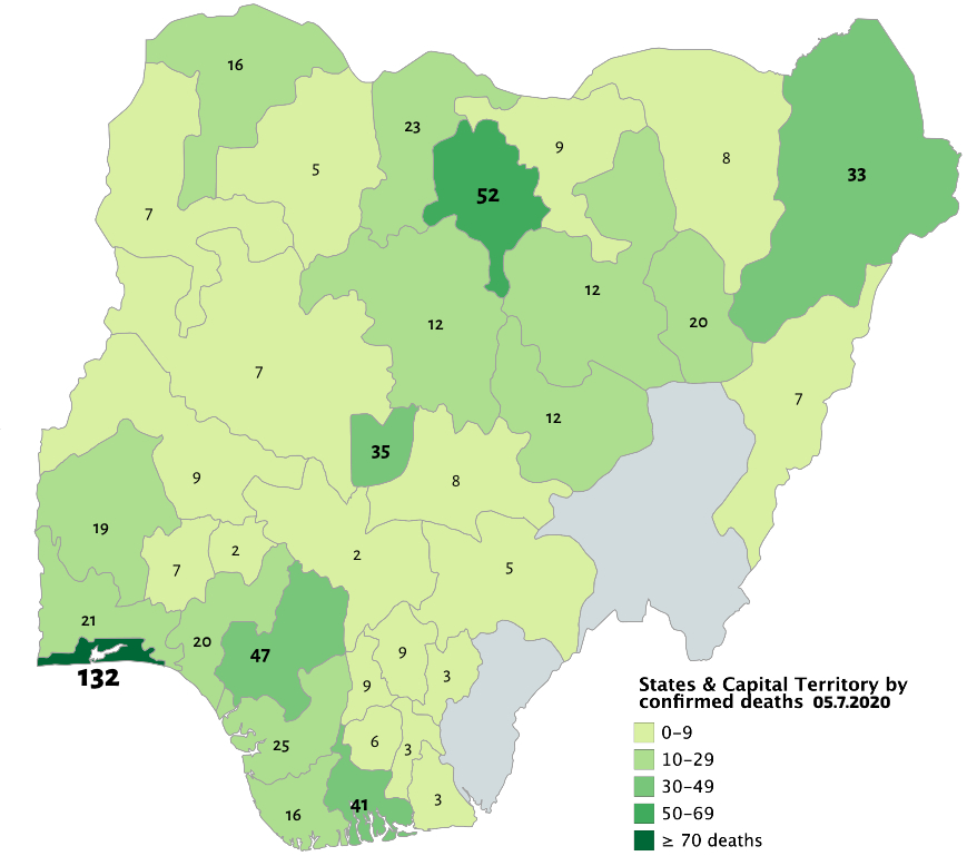 Graphical presentation of COVID-19 Deaths in Nigerian states as confirmed by the Nigeria Center for Disease Control (NCDC)